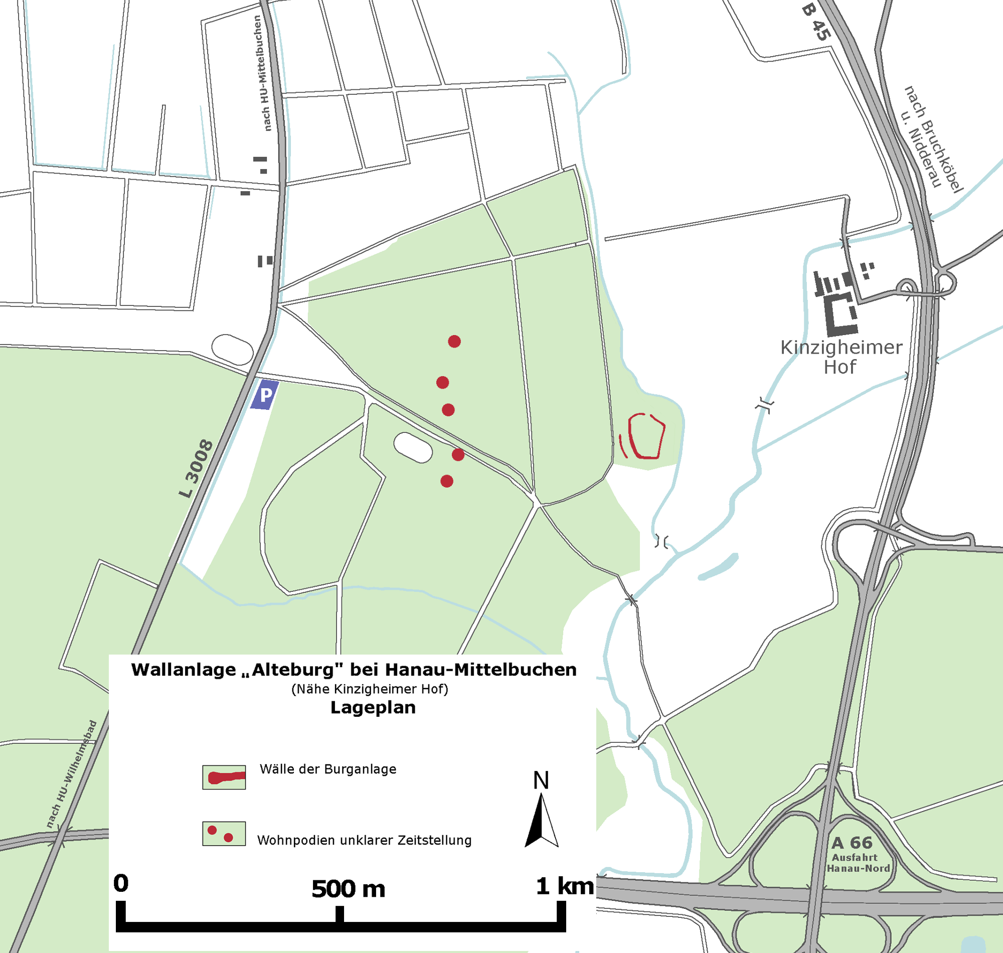 Plan of Castle Altenburg, Hanau-Mittelbuchen, Hesse.